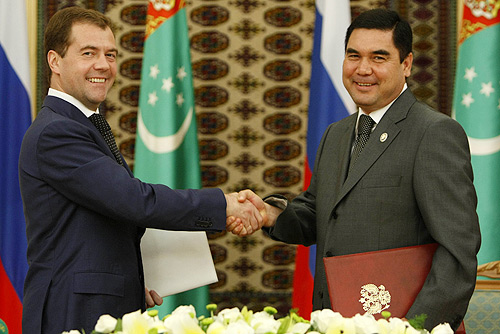 ASHGABAT. Signing the Joint Declaration between Russia and Turkmenistan.